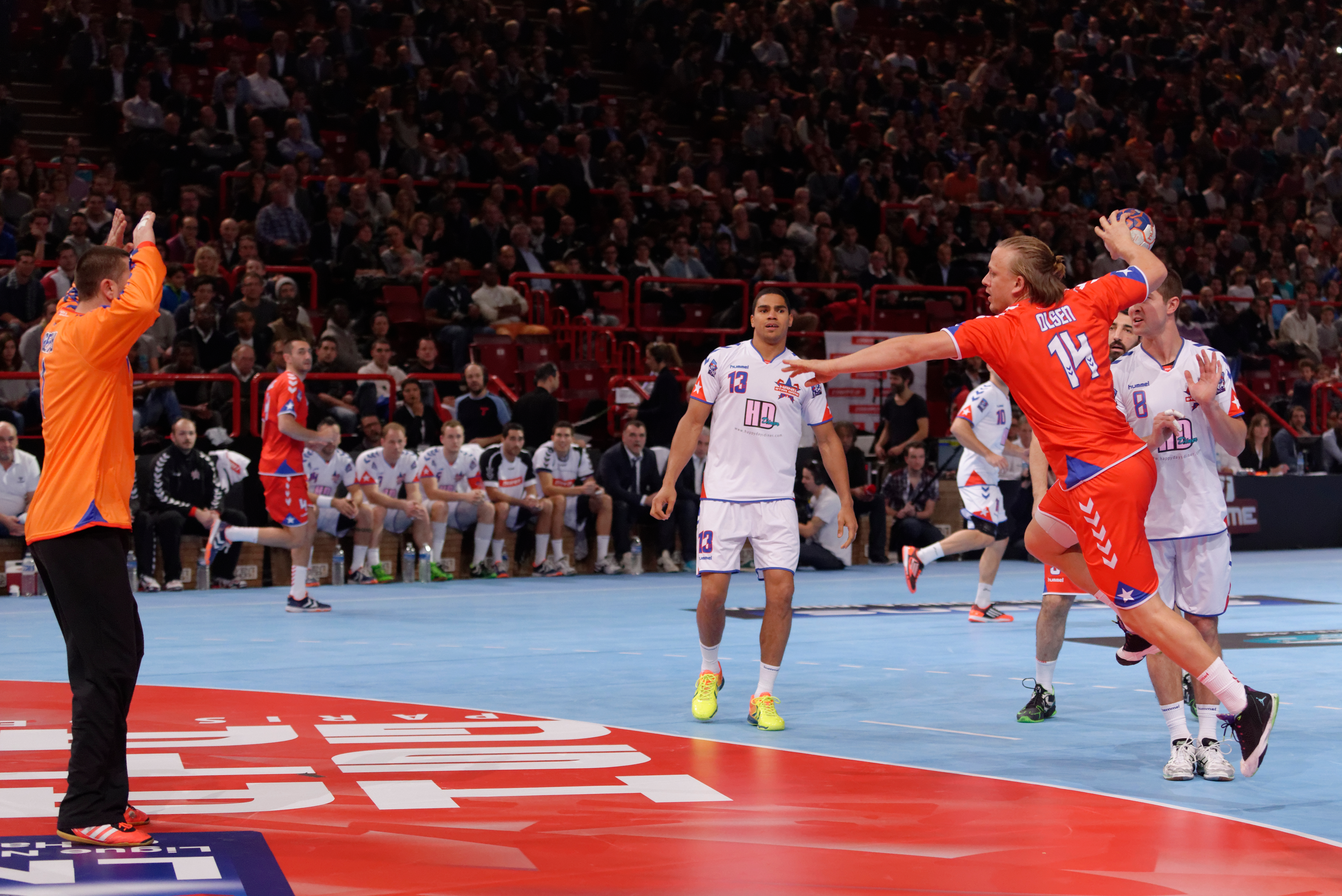 Morten Olsen attempts a goal against Yann Genty in the 2013 Hand Star Game held at the Palais Omnisports de Paris-Bercy on 7 December 2013.